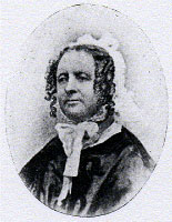 Portrait of Gustava Kielland, date unknown.